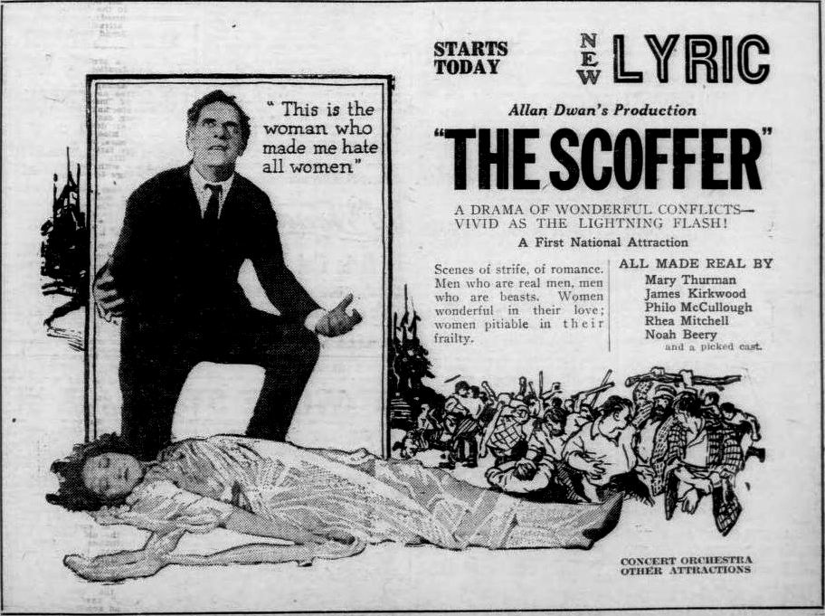 Newspaper advertisement for the American drama film The Scoffer (1920) with James Kirkwood and Rhea Mitchell, on page 10 of the February 12, 1921 Duluth Herald.